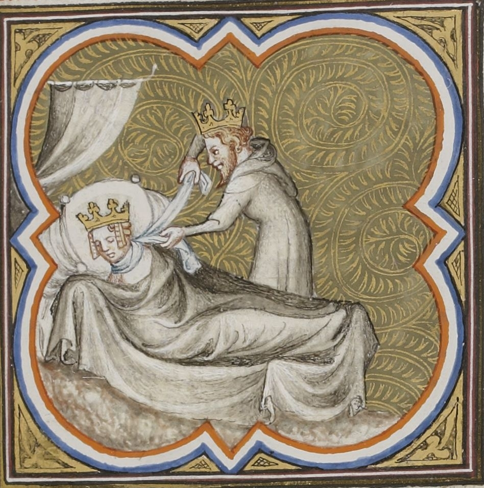 Strangling of Galswinthe by Chilperic in AD 573. From a manuscript of the Grandes Chroniques de France, Paris, BNF, Fr. 2813, fol. 31 recto.